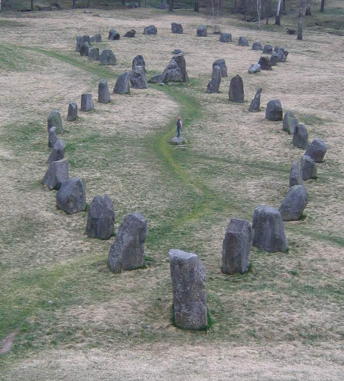 Two of the viking stone ships (burial grounds) at Badelunda, near Västerås, Sweden.